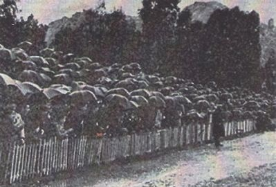 Baños del Carmen Stadium, Málaga, Spain 1922.